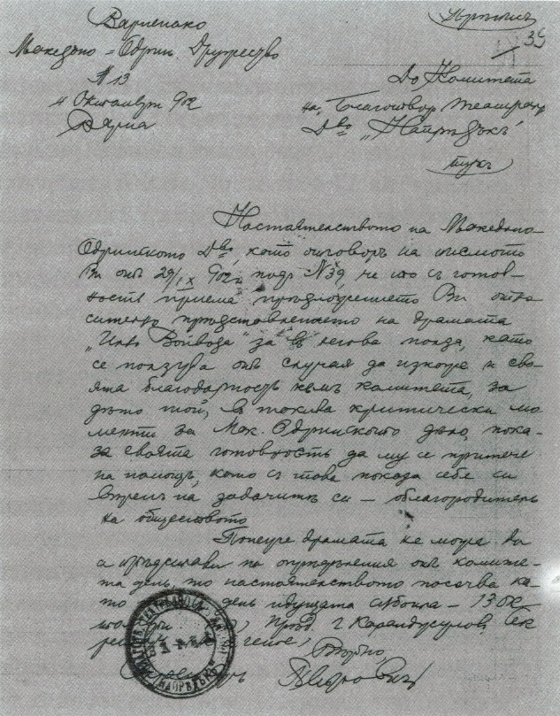 Document of the Varna Macedonian-Adrianopolitan Society, 4 October 1902